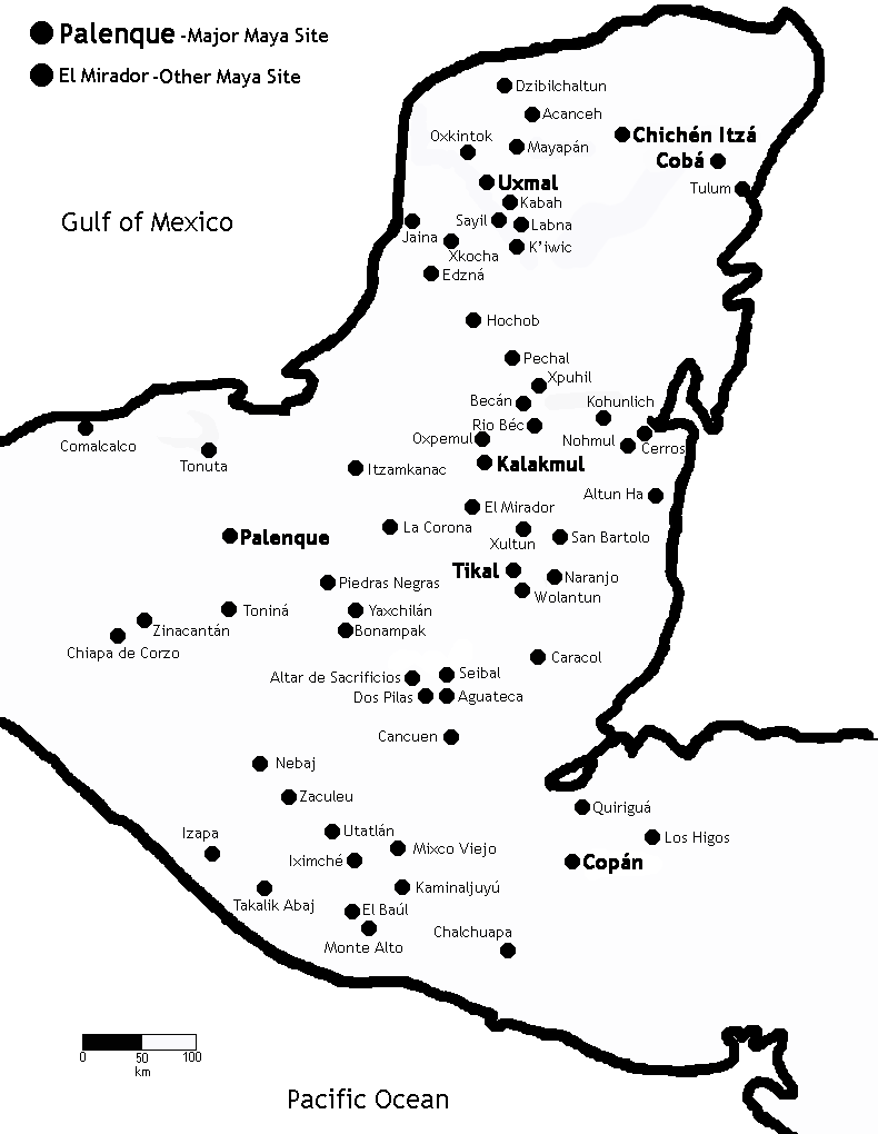 A map of several Maya sites. Created by Akubra